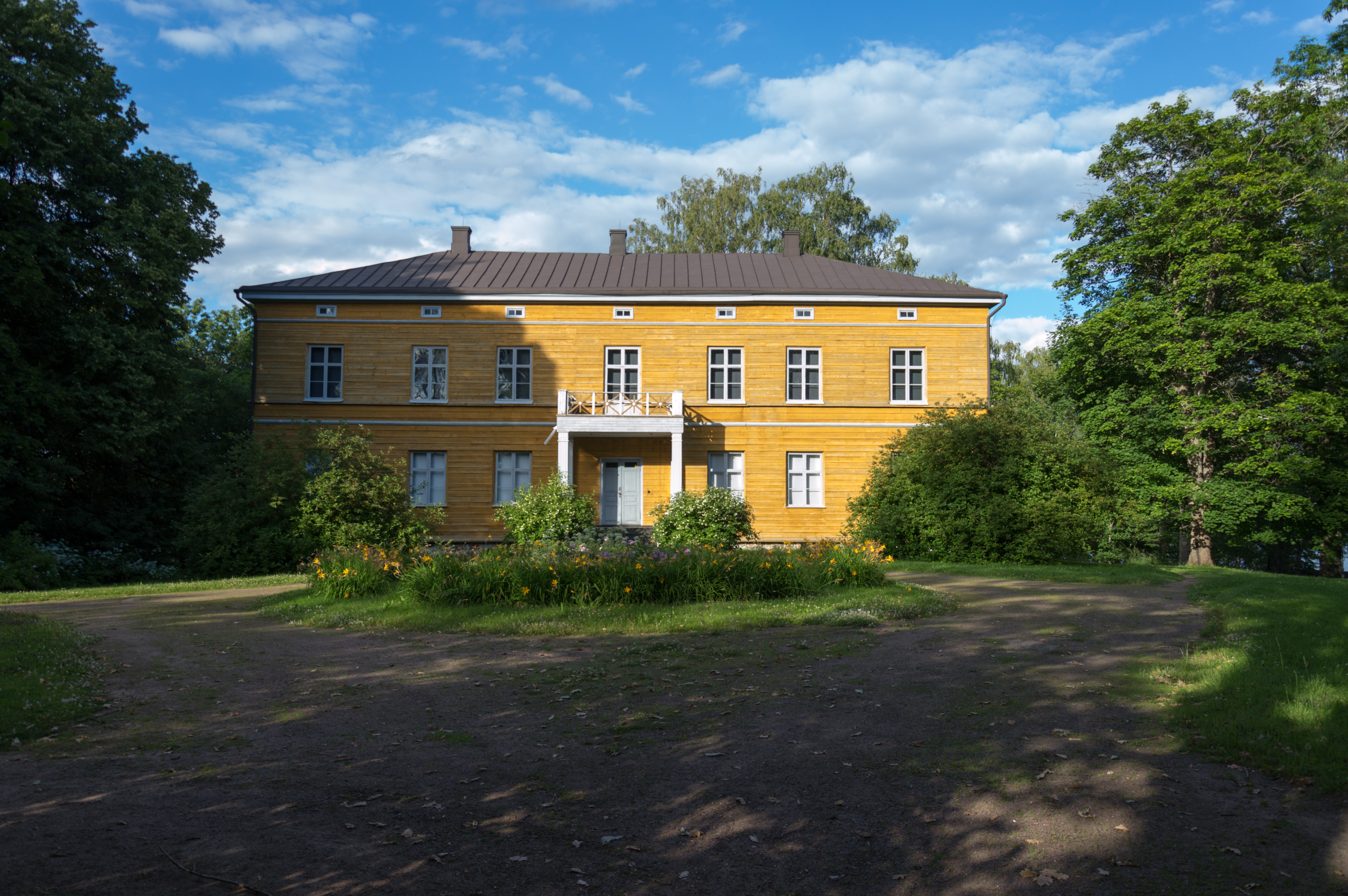 The Anjala Manor in Anjalankoski, Finland.